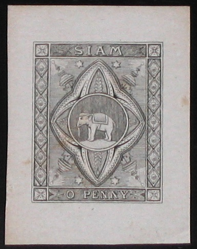 First essay (rejected postage stamp design) of Thailand (Elephant Essay). Early 1880s.